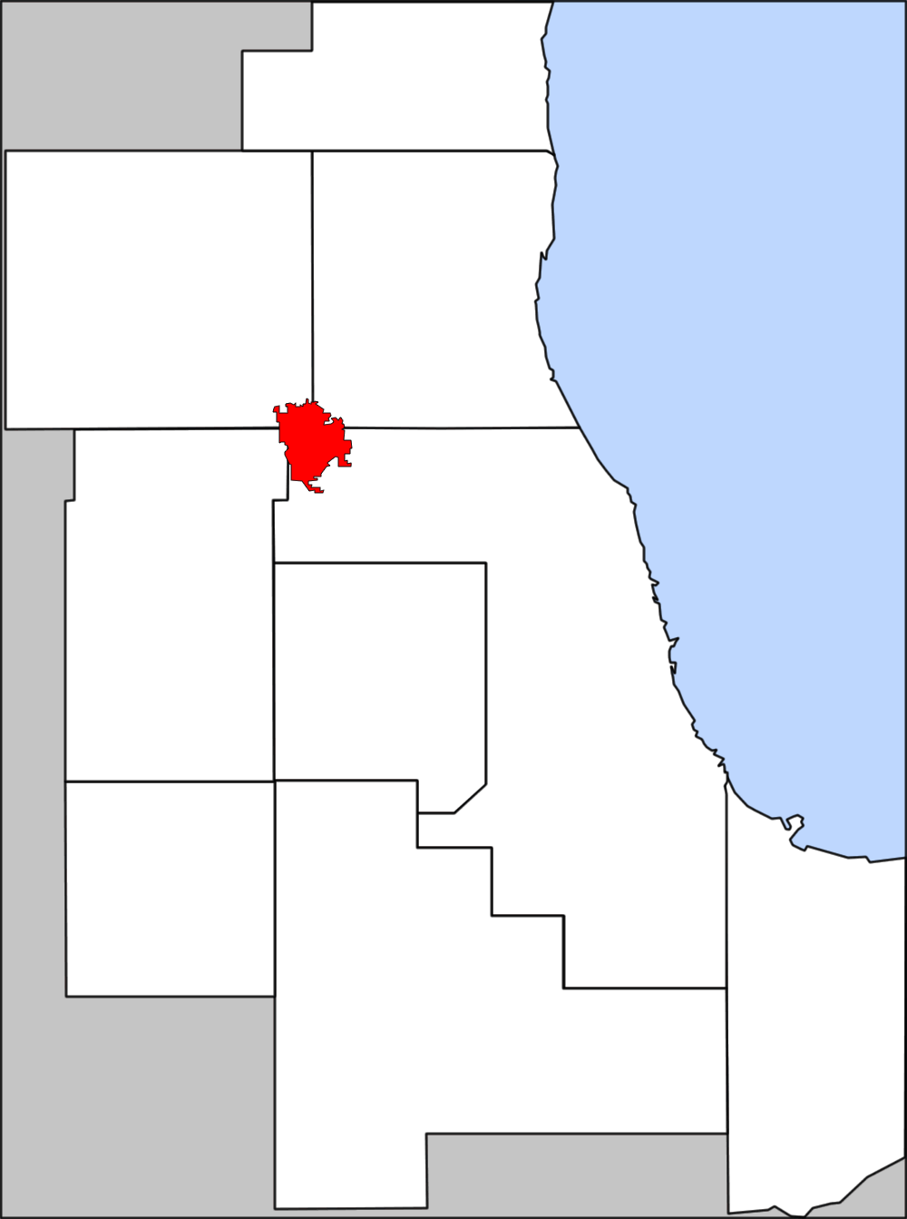 Location of Barrington Hills in Chicagoland Created with Adobe Fireworks 4 PNG-8 Websnap adaptive color palette 1000 x 1343 resolution Category:Illinois city locator maps